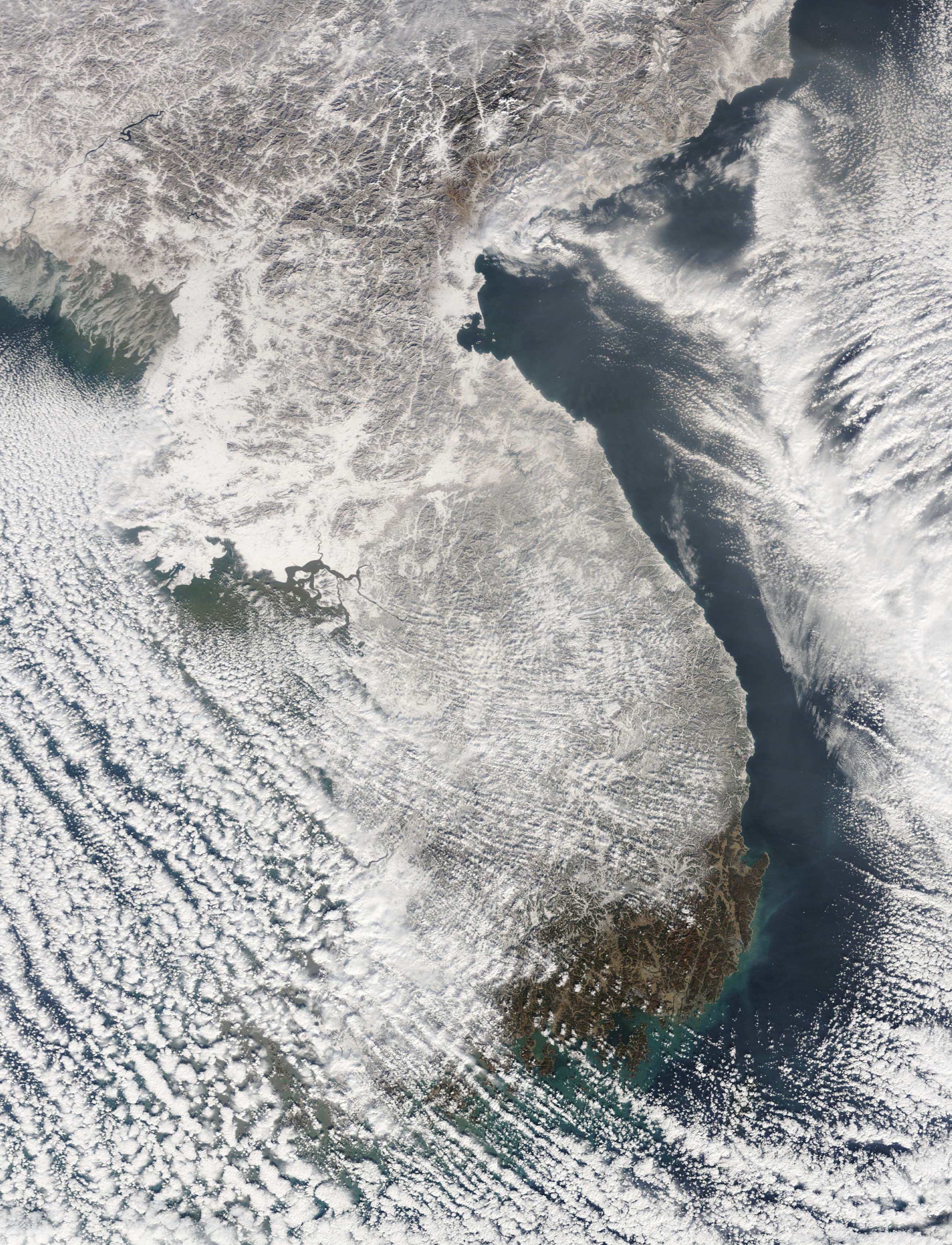 Snow covered Korea in January 5, 2010.